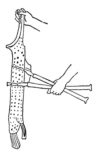 Aulos carrying-case called subene (συβήνη).